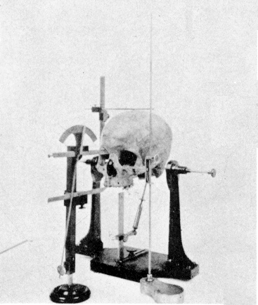 Skull and cliometrician measurement apparatus, from 1902.